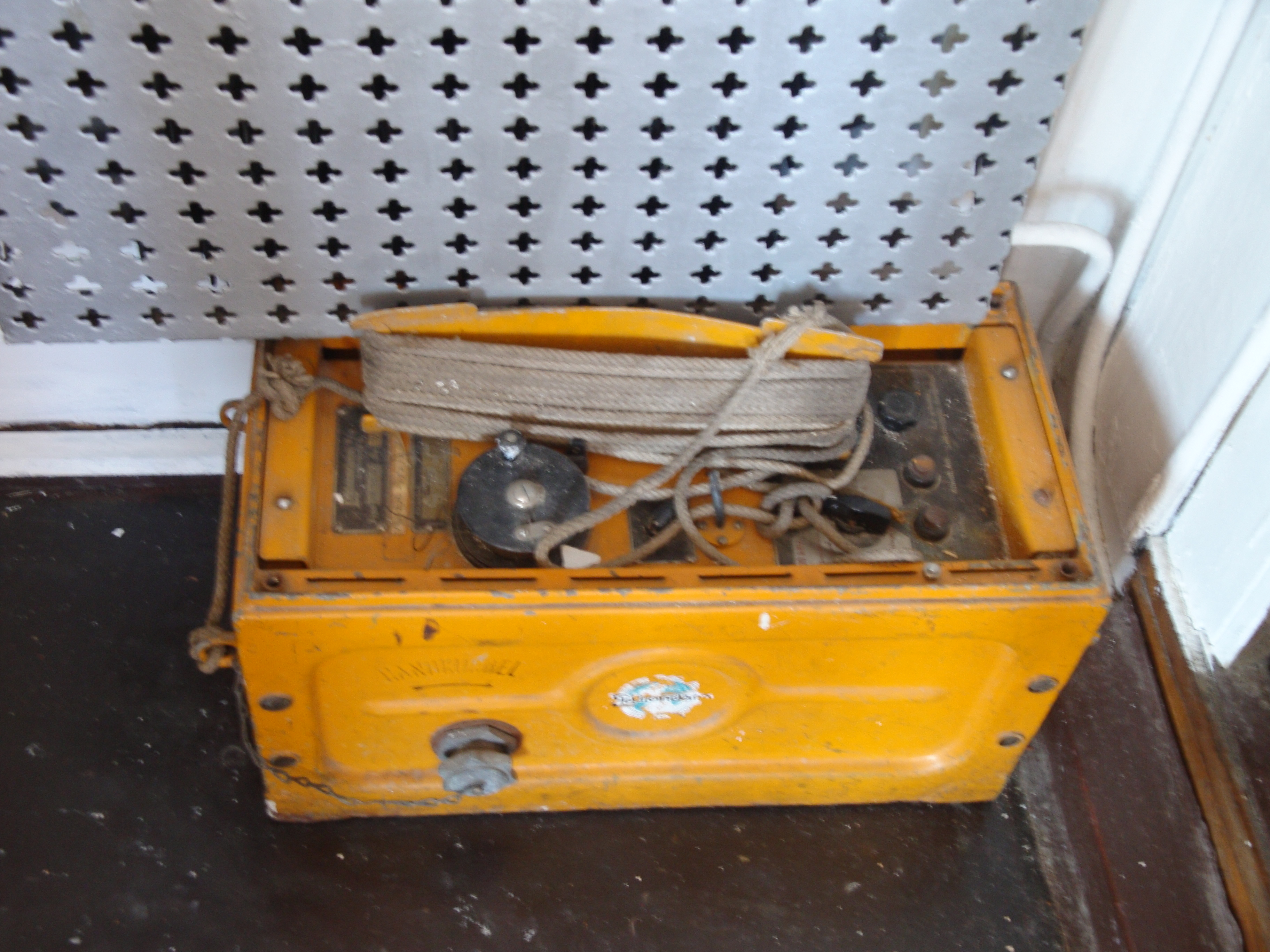 Museal ship S/S Sołdek in Gdańsk, Poland. Emergency, portable boat radio transceiver